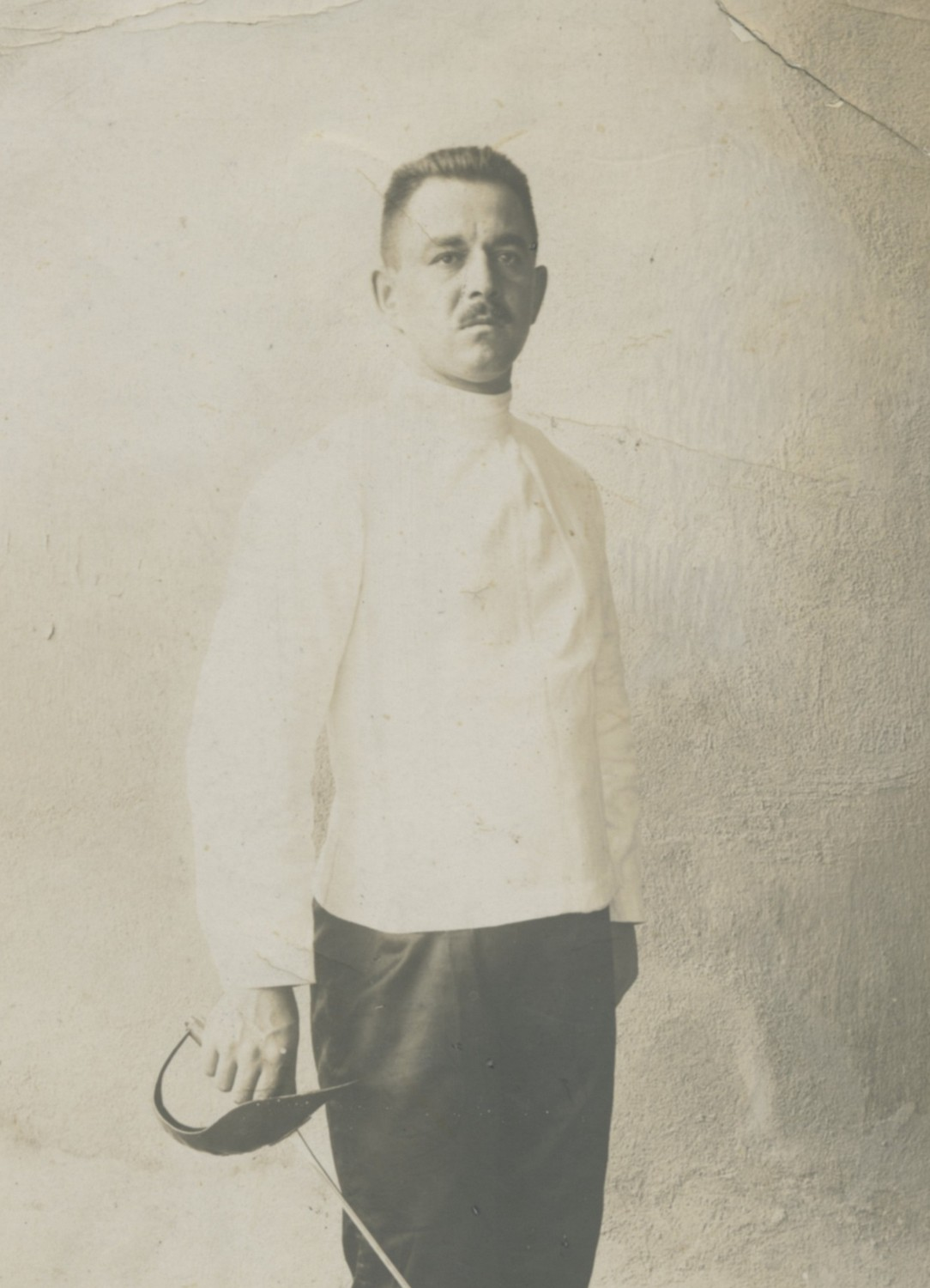 Rudolf Cvetko, first Slovene with Olympic medal.